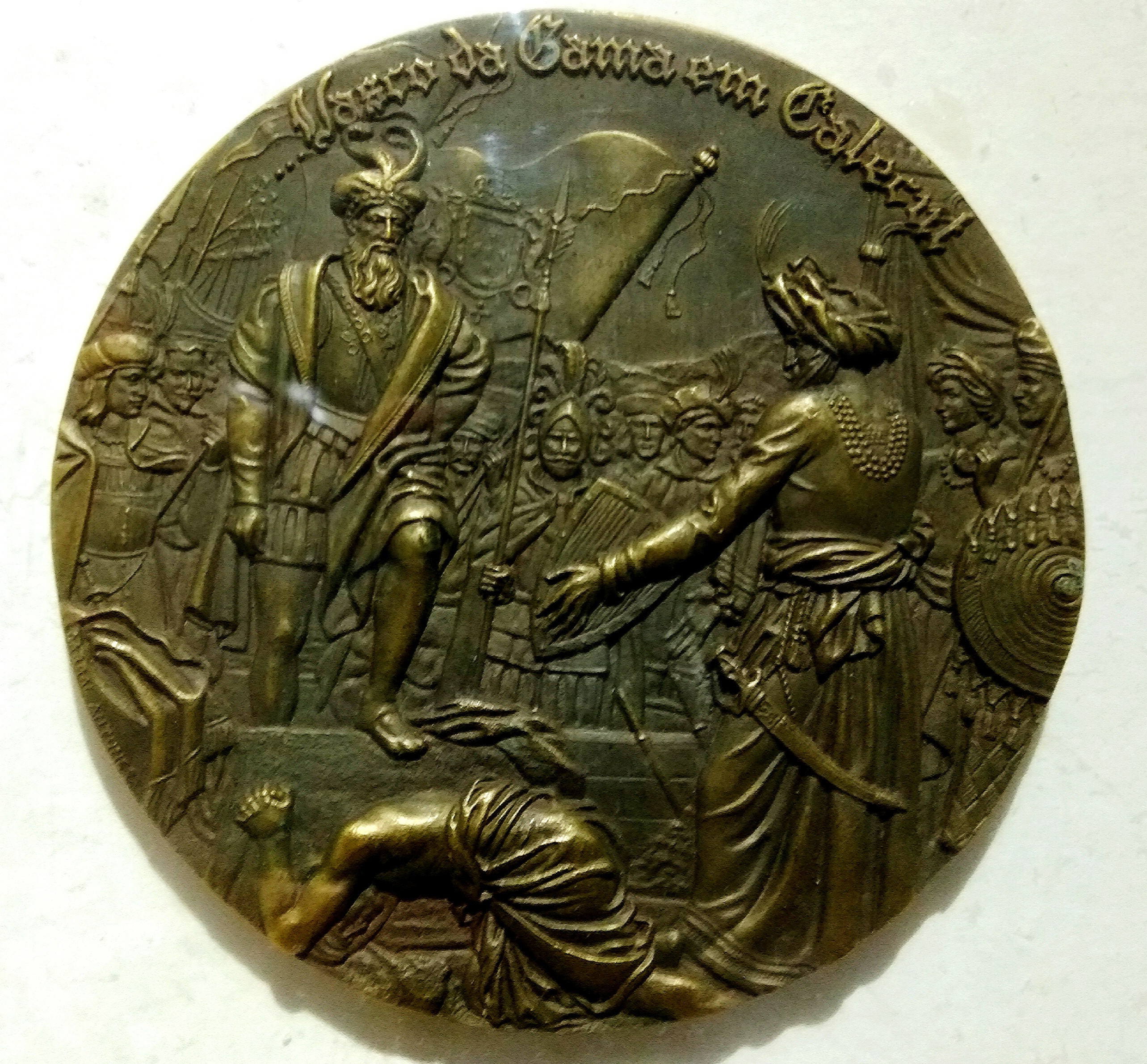 Portuguese medal released in commemorate Vasco da Gama's Landing in Calicut